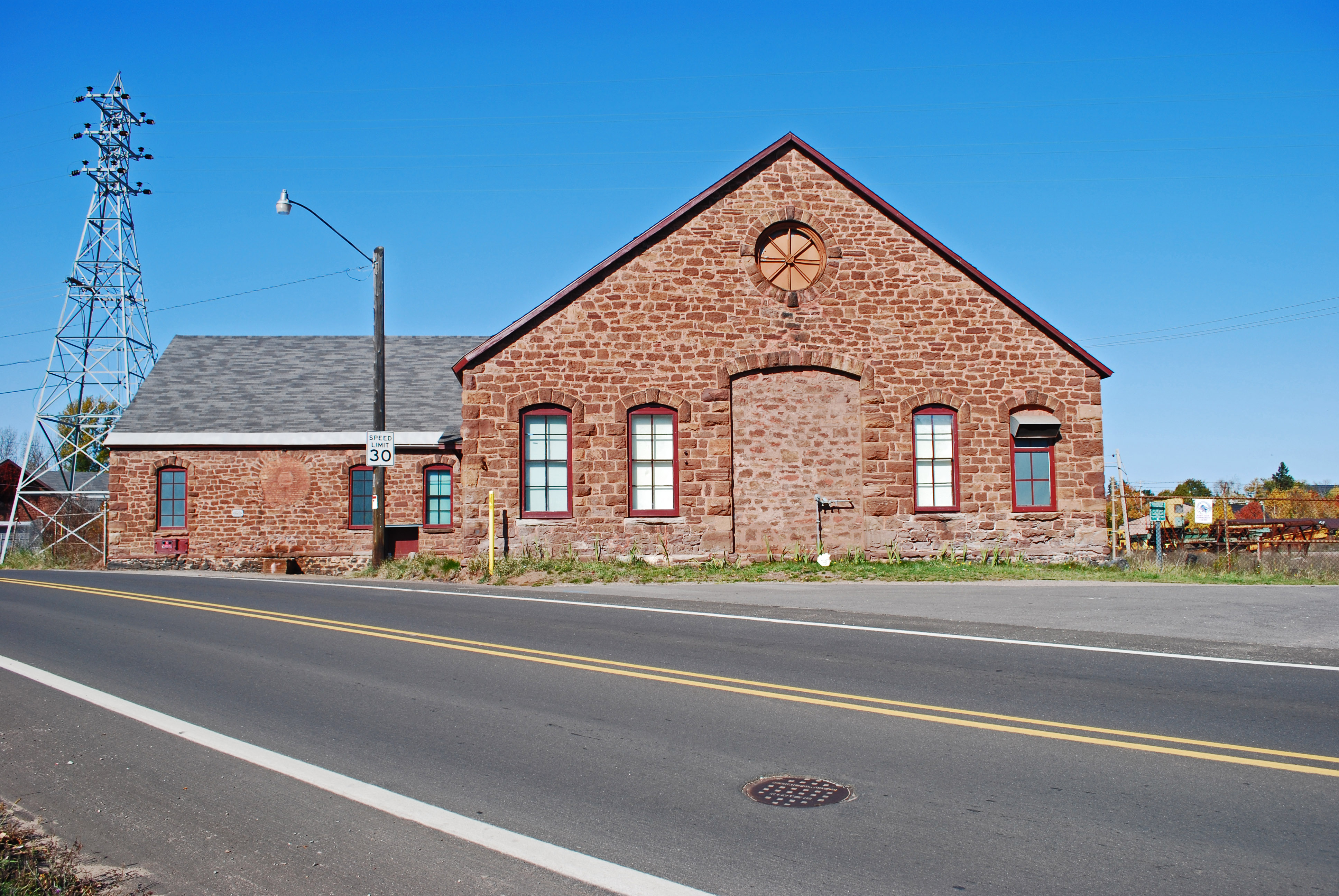 Clevelan Mine Engine House no 3, Ishpeming MI